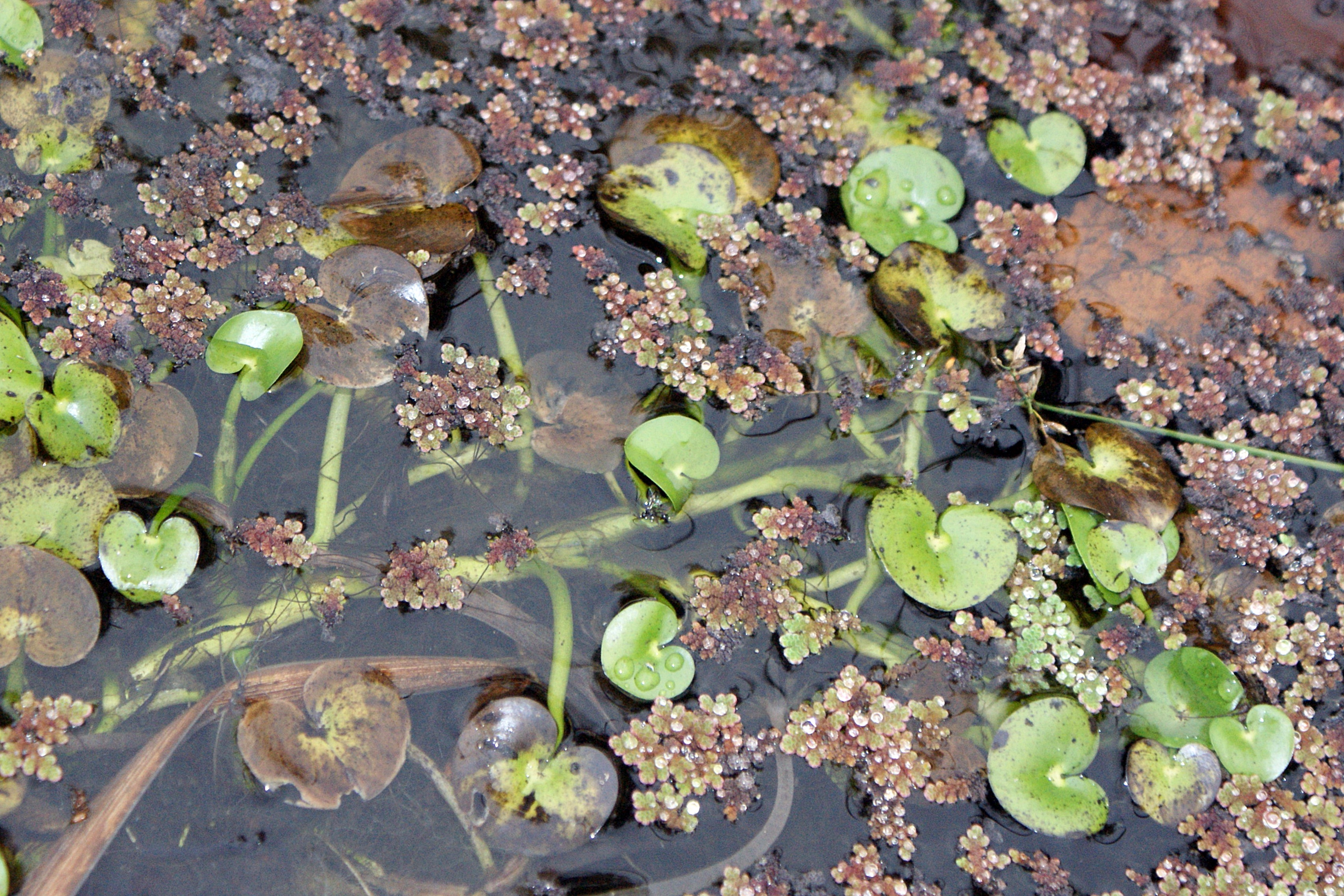 Heteranthera reniformis